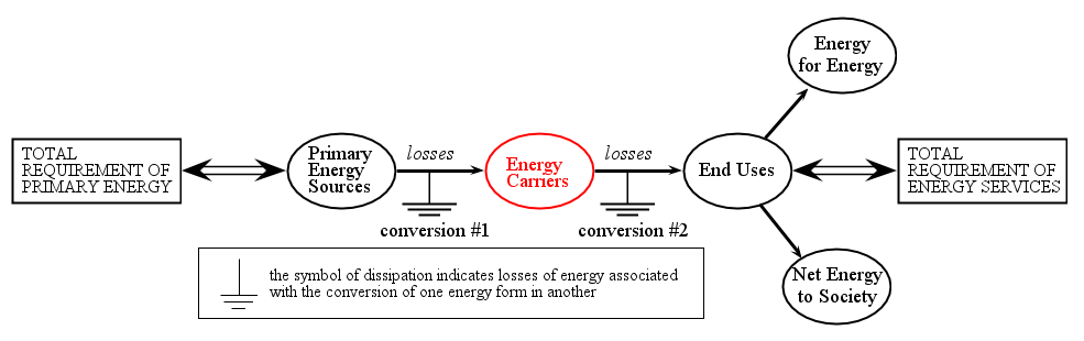 Different of energy forms in the energy metabolism of society. Energy carriers highlighted. Adapted from: M. Giampietro and K. Mayumi, "The The Biofuel Delusion: The Fallacy of Large Scale Agro-Biofuels Production", Earthscan, 2009.